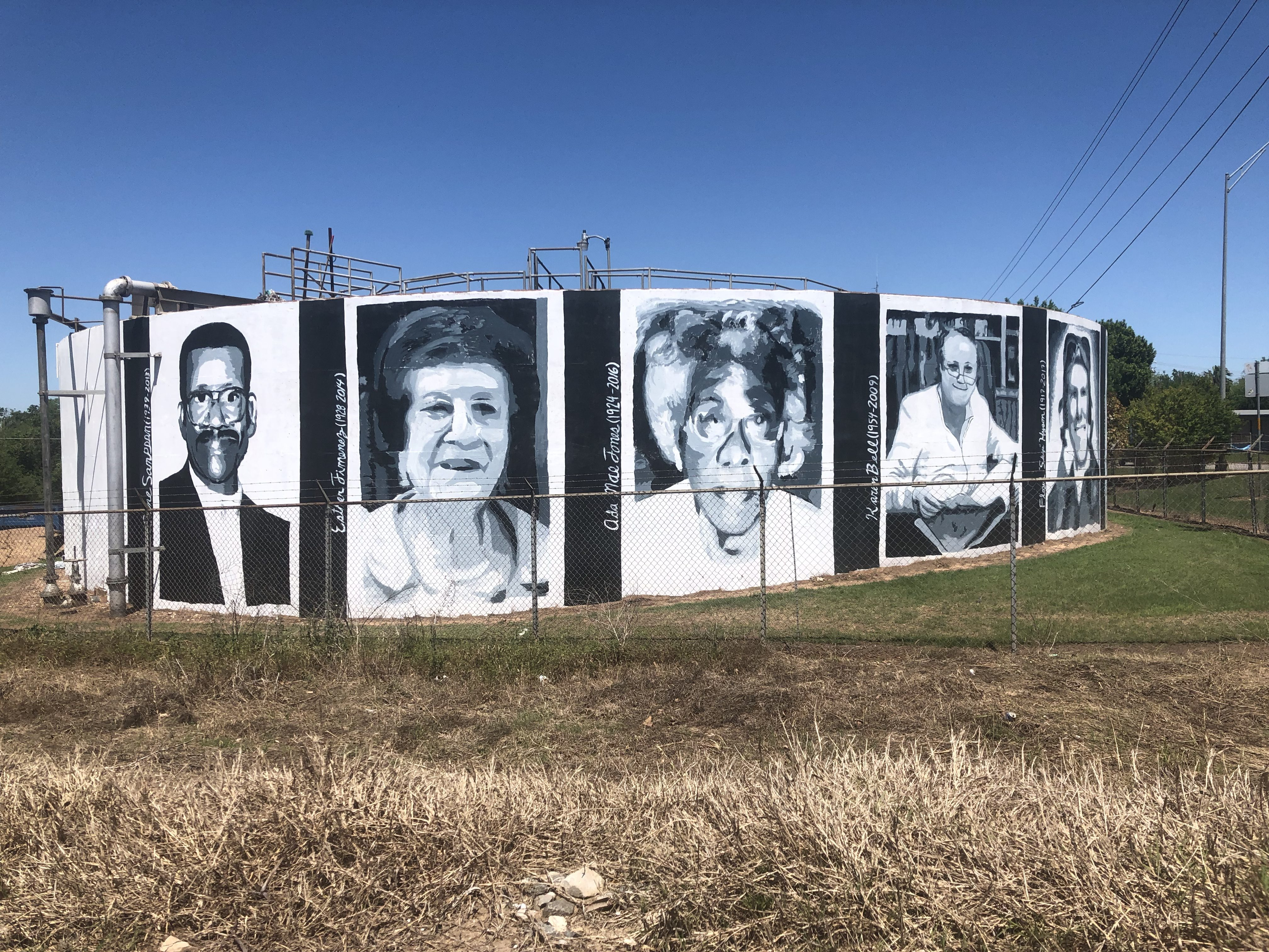 Mural of notable community members, Smithville, TX